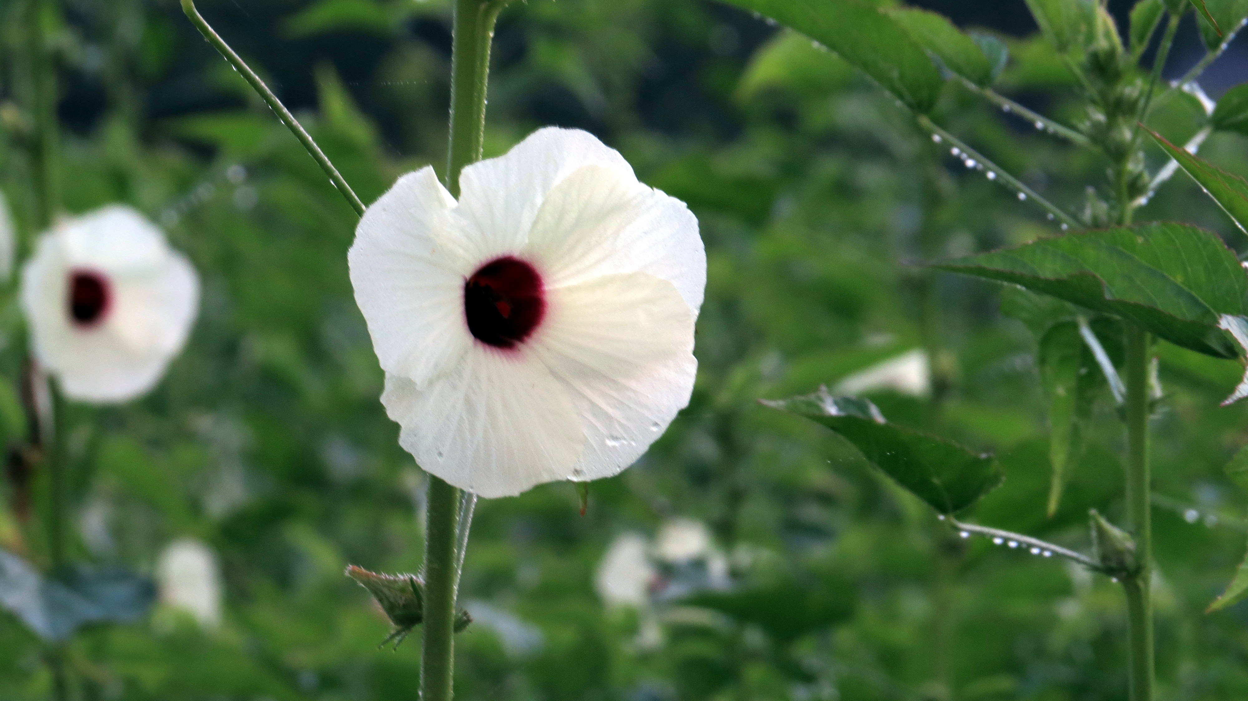 Flower of Hibiscus cannabinus (Jute) or Kenaf in Malay